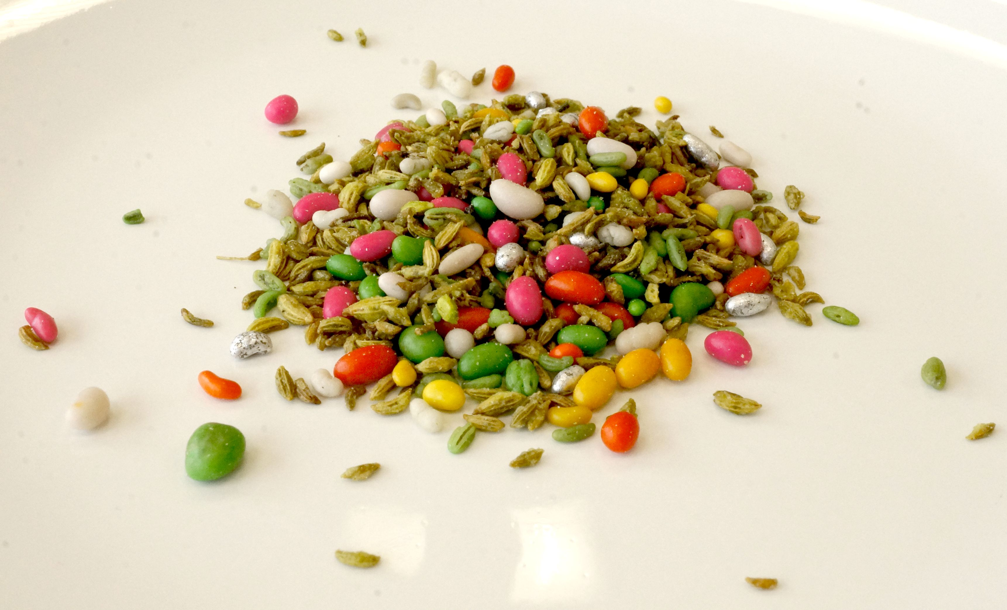 Saunf candies. Probably bought in Nepal. Each colorful candy is sugar coated around a seed of saunf.